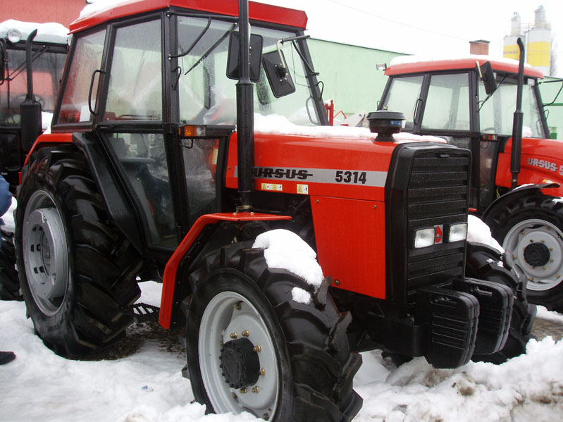 Ursus 5314 Agro tractor.